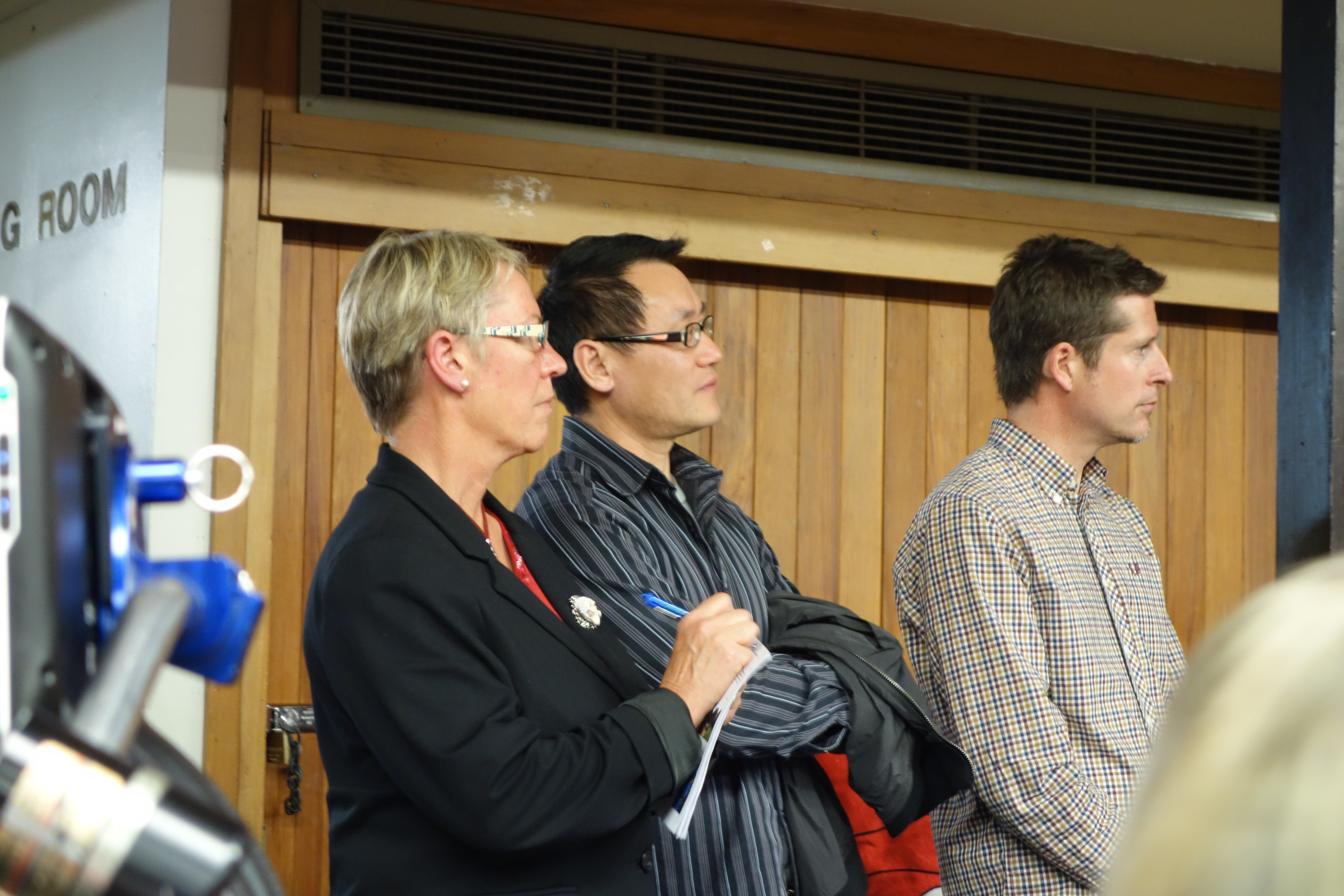 At a Labour Party function in Christchurch just after the October 2013 local elections.